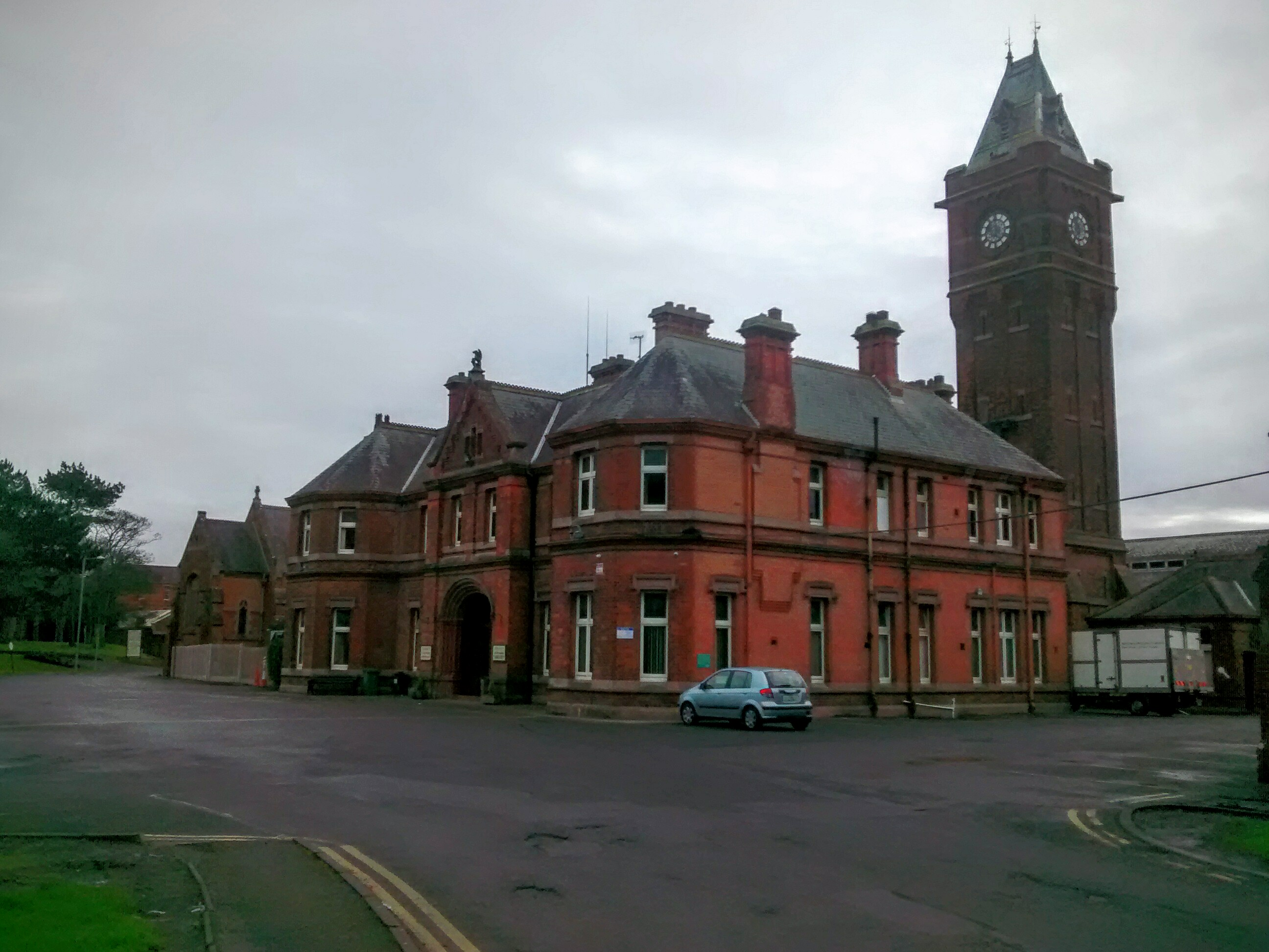 Main building of St. It's psychiatric hospital. Portrane, County Dublin